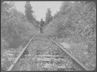 [the Railway of Death] [allocated] Unedited footage showing various places along the 258-mile long Burma-Siam 'Death Railway' constructed in 1942-43 by a slave labour force consisting of Allied prisoners-of-war and Asian civilians.